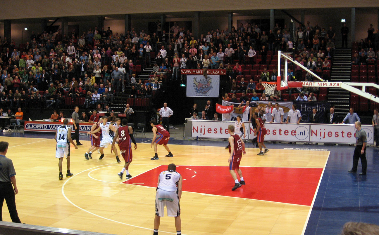 Hanzevast Capitals playing a match of basketball against Almere Pioneers in Martiniplaza, Groningen